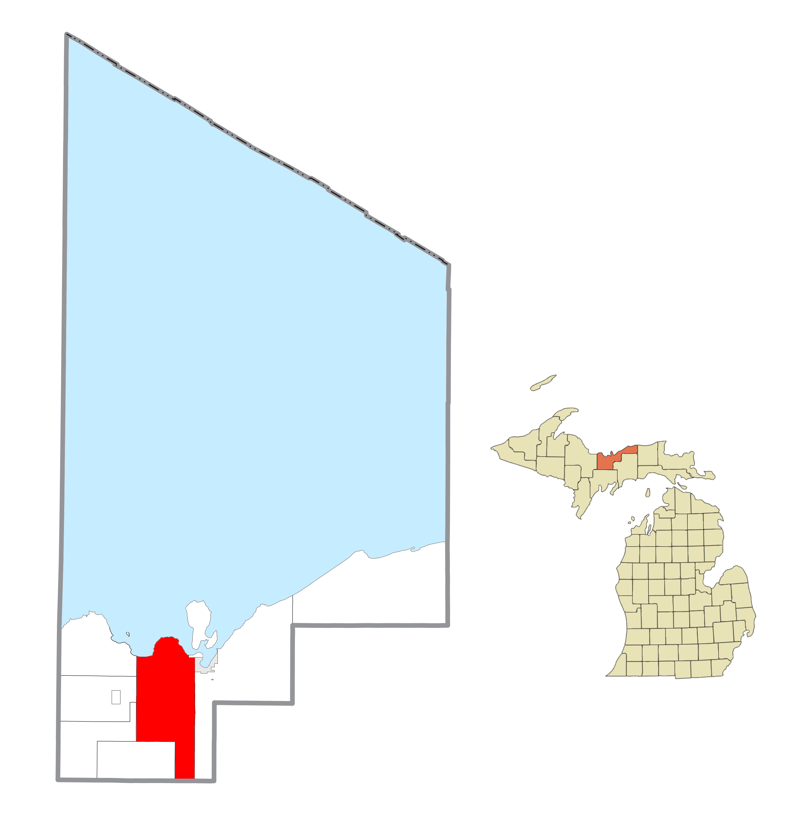 Au Train Township, MI